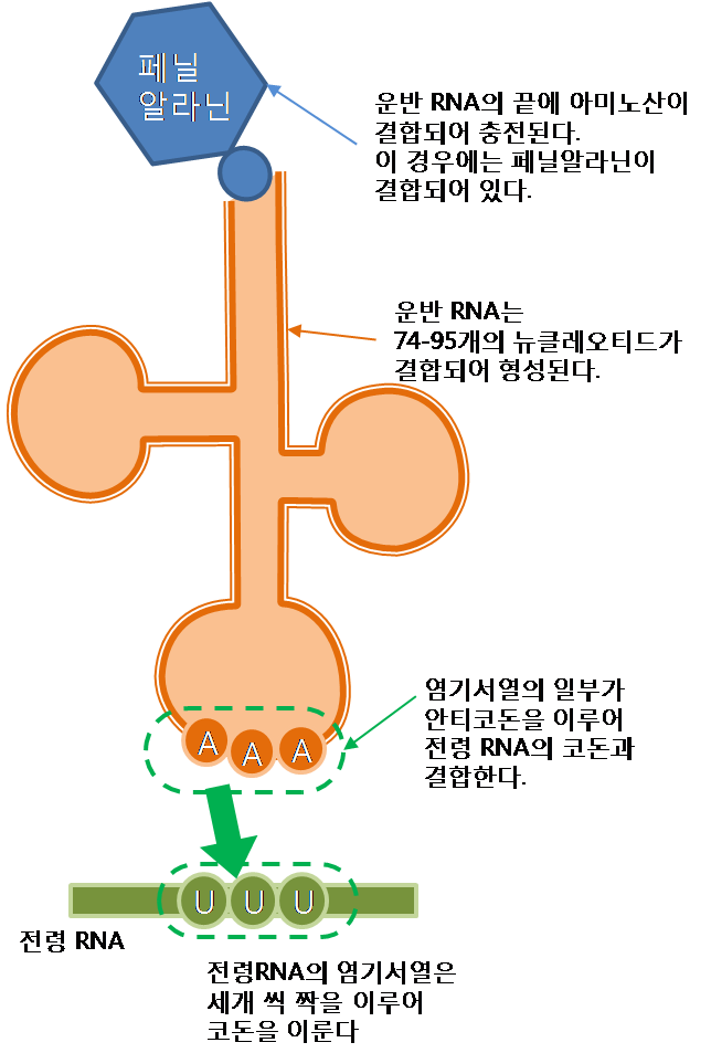 This illustration explane basic concepts about tRNA.